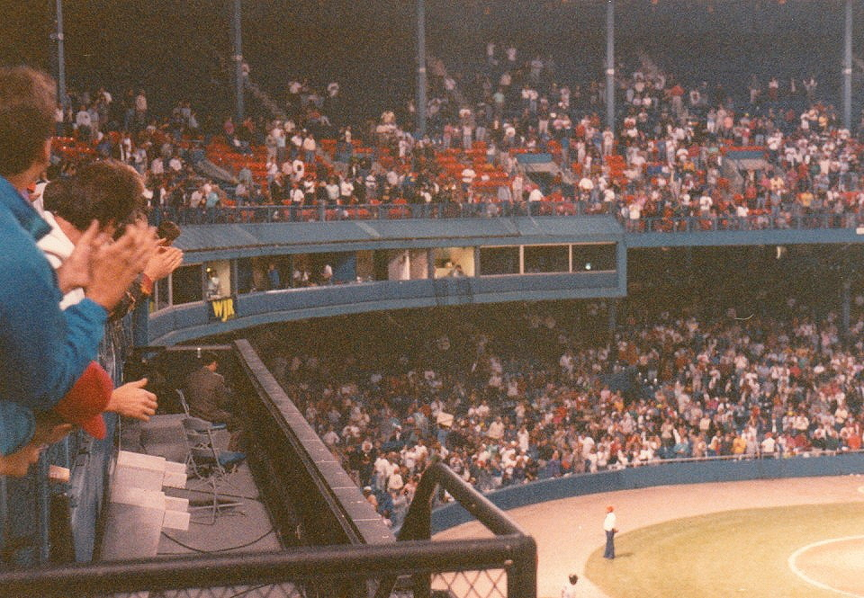 Ernie Harwell, Tiger Stadium, last game, 1991